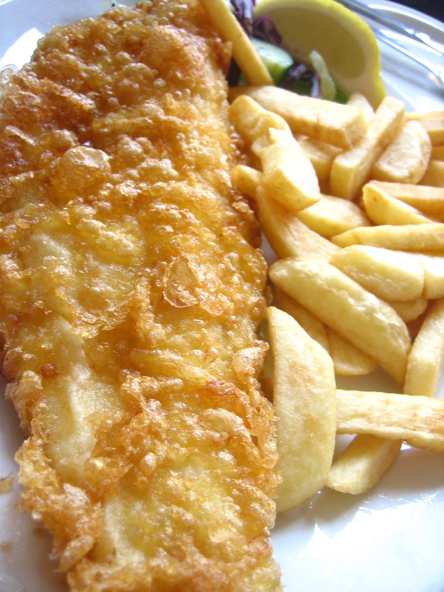 Fish and chips as served at The Regency in Brighton, England